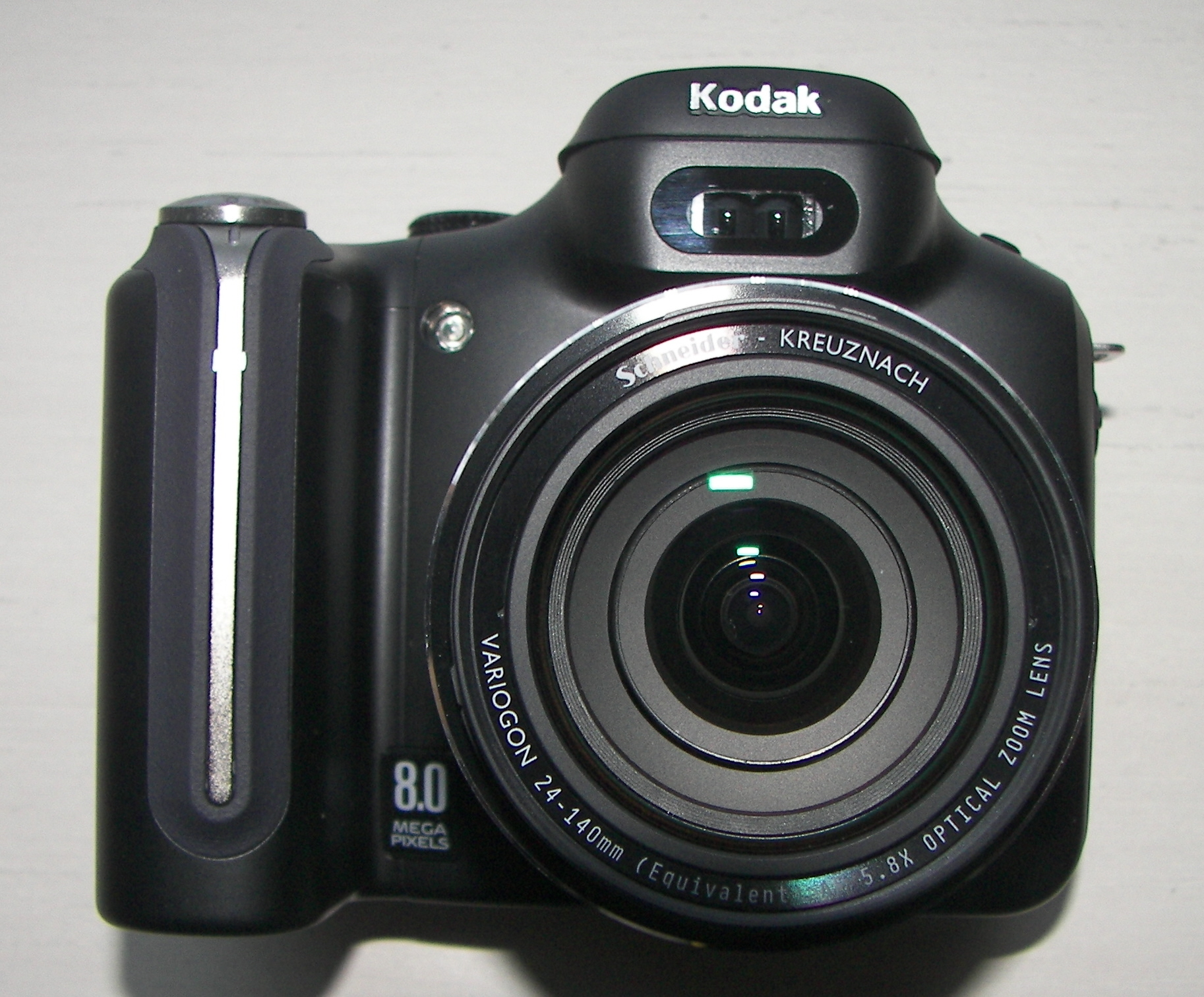 I am the author. Dr.K. 22:35, 11 March 2007 (UTC)